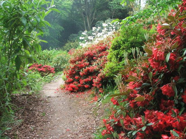 Achamore Gardens, Gigha. The garden extends to approximately 50 acres of natural woodlands and contains a large walled garden. Achamore Gardens are virtually frost free and they are full of rhododendrons, azaleas, camellias and rarer exotic plants and trees.